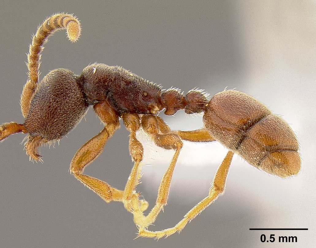 Profile view of ant Leptanilloides nomada specimen casent0106087.